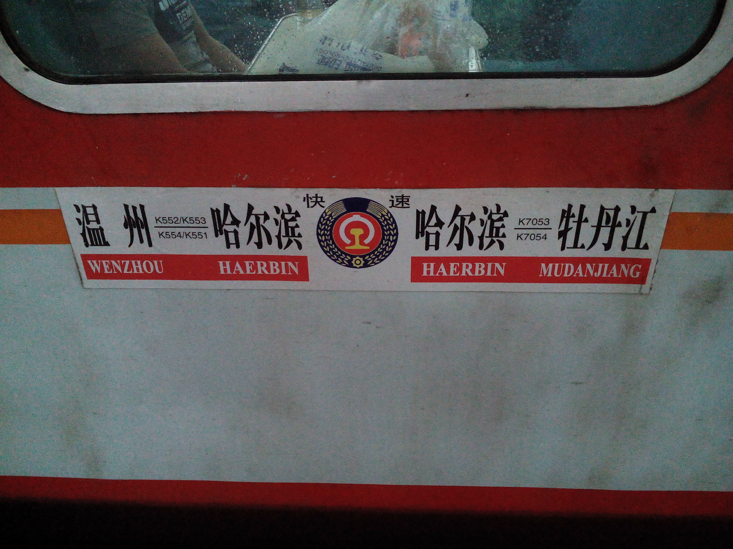 K551 2 3 4 infoboard in 201406. Taken at Jinhua Station after getting out of D91 from Yiwu